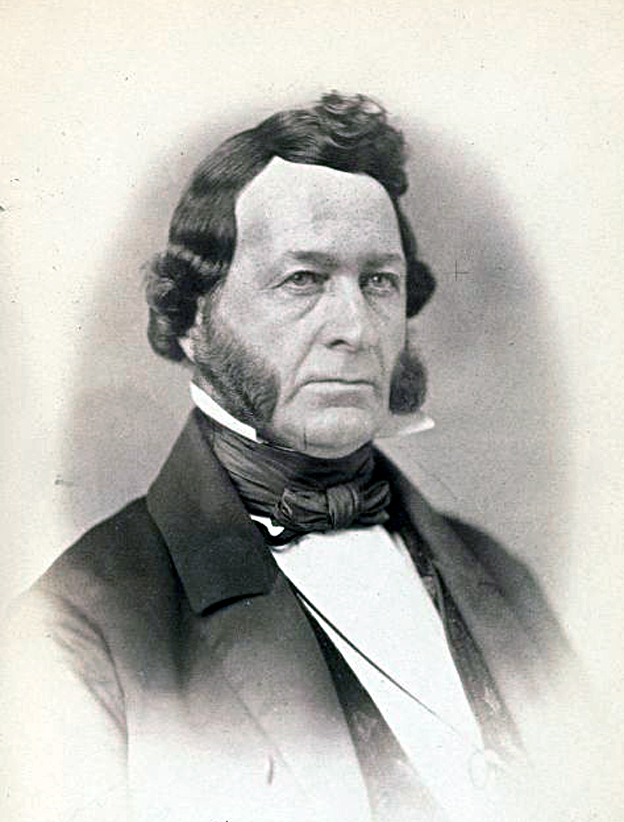 John Alexander Ahl, US Representative from Pennsylvania